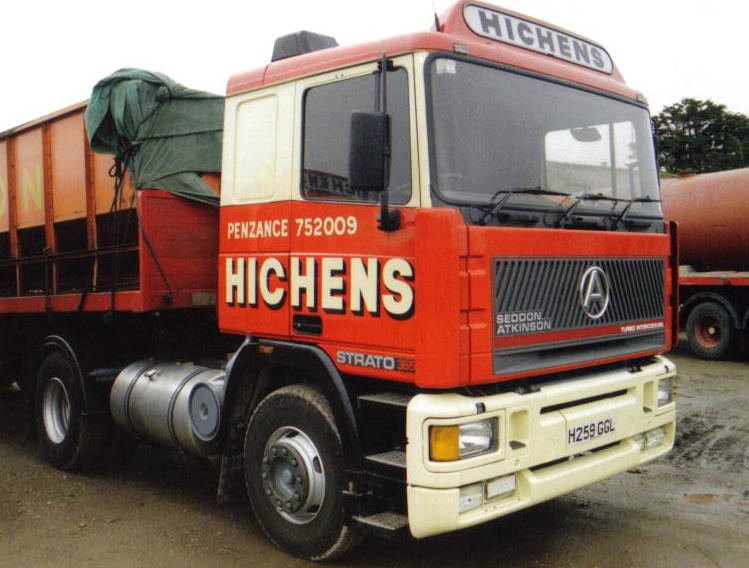 1991 Seddon Atkinson Strato 365 (17.37C) belonging to Hichens, of Penzance, UK